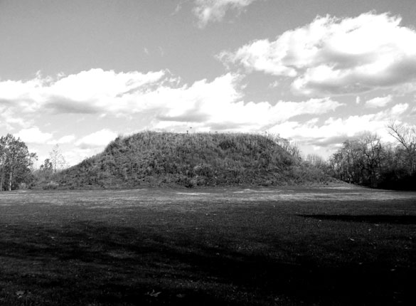 A photo of the largest mound at the Winterville Site, a Mississippian culture in Greenville.